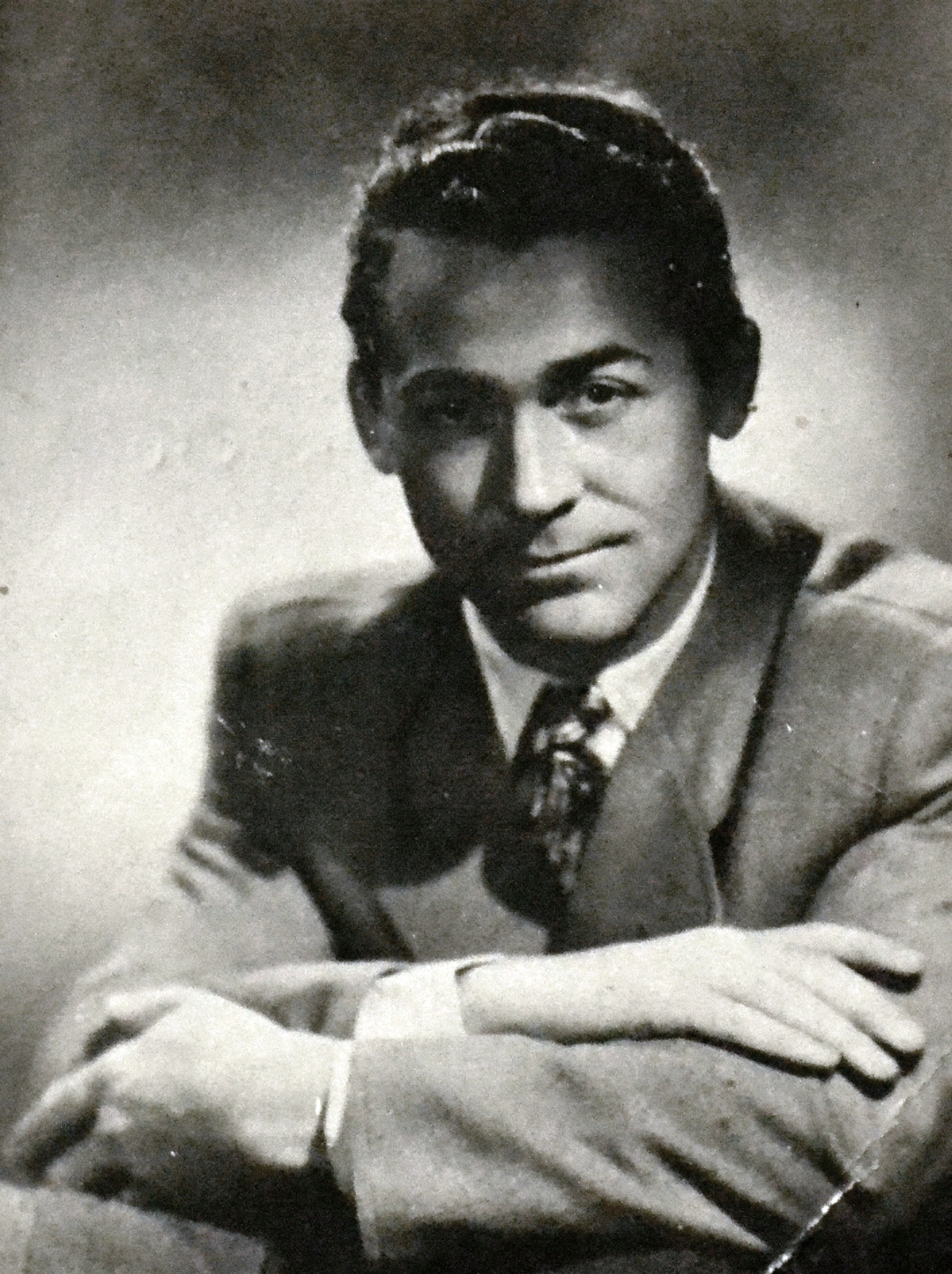 Stanislav Procházka, Czech vocalist